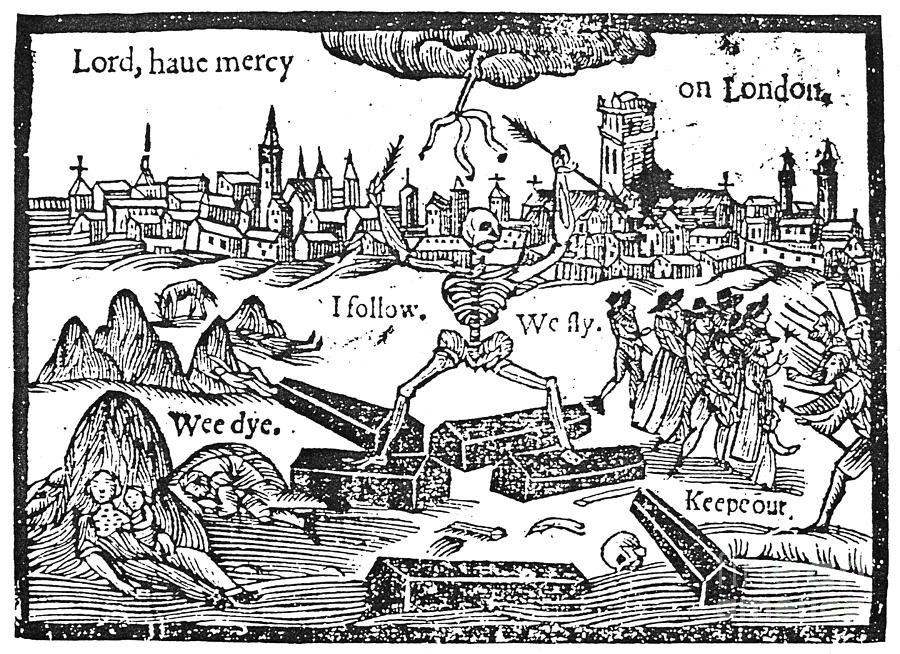 The black death in London